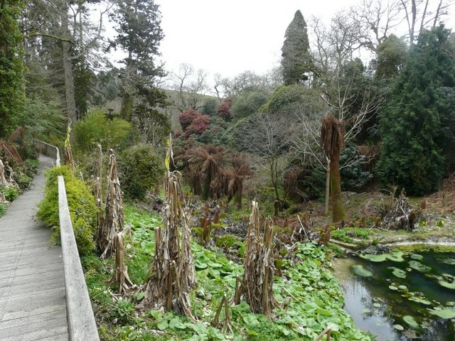 The Lost Gardens of Heligan This part of the gardens is known as the jungle. There was a notice in the vicinity of this broadwalk saying that the dead-looking plants were bananas.